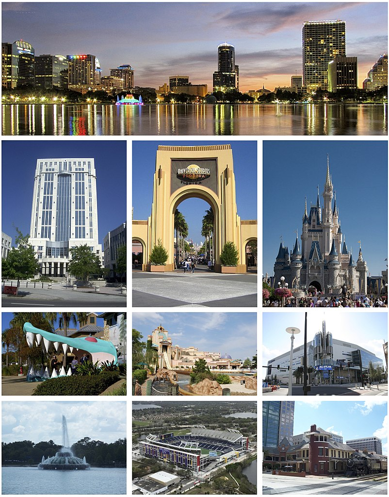 Collage of the city of Orlando. Created 15 Oct 2017 consisting of All CC/PD sources: File:Orlando FL cnty crths01.jpg, File:Entrance to Universal Studios Florida.jpg, File:Cinderella Castle, Magic Kingdom (May 2, 2011).jpg, File:Gatorland, 2012-11-23.jpg, File:Journey to Atlantis - SeaWorld Orlando.jpg, File:AmwayCenterFirstGame.jpg, File:Orlando Lake Eola02.jpg, File:Citrus Bowl Orlando City.jpg, File:Orlando Railroad Depot05.jpg, File:Lake Eola Park in Orlando 01.jpg